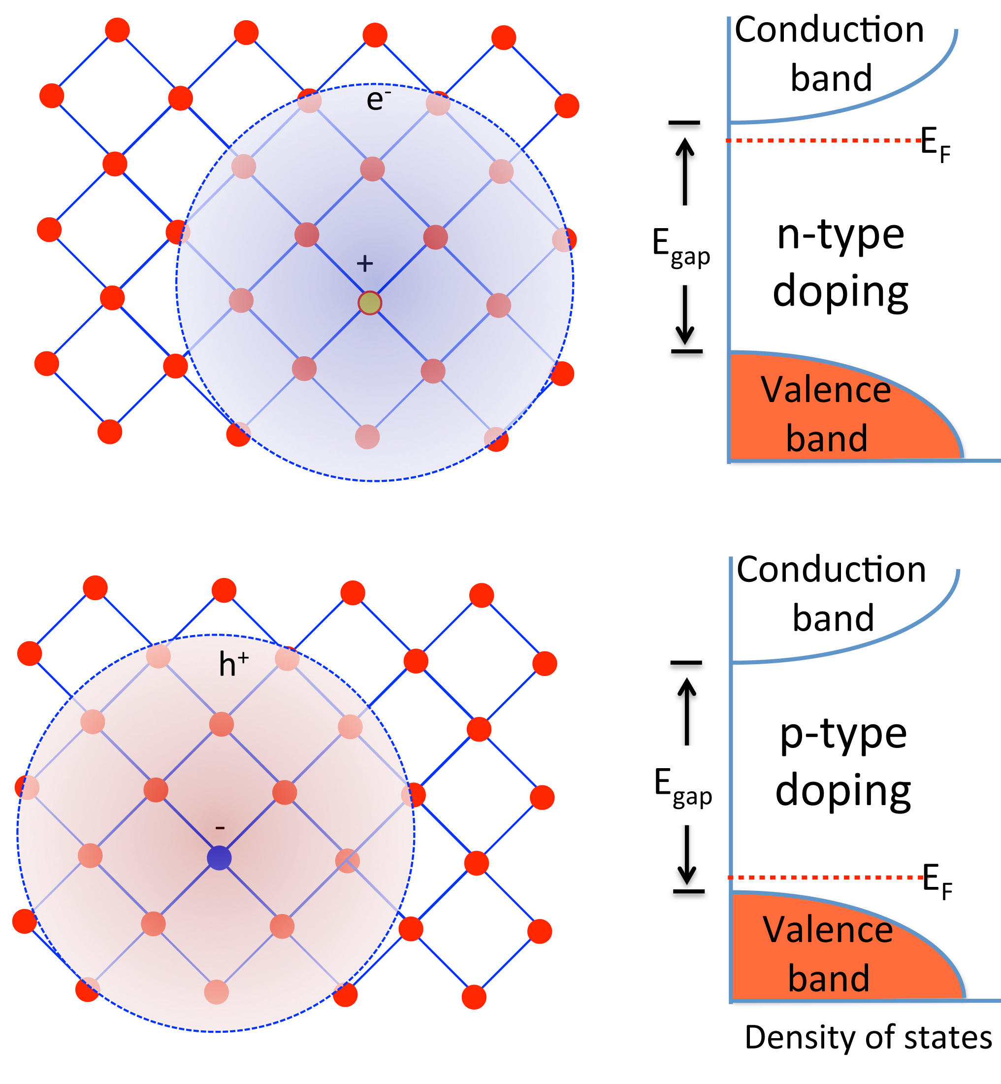 Illustration of n- and p-type doping in semiconductors